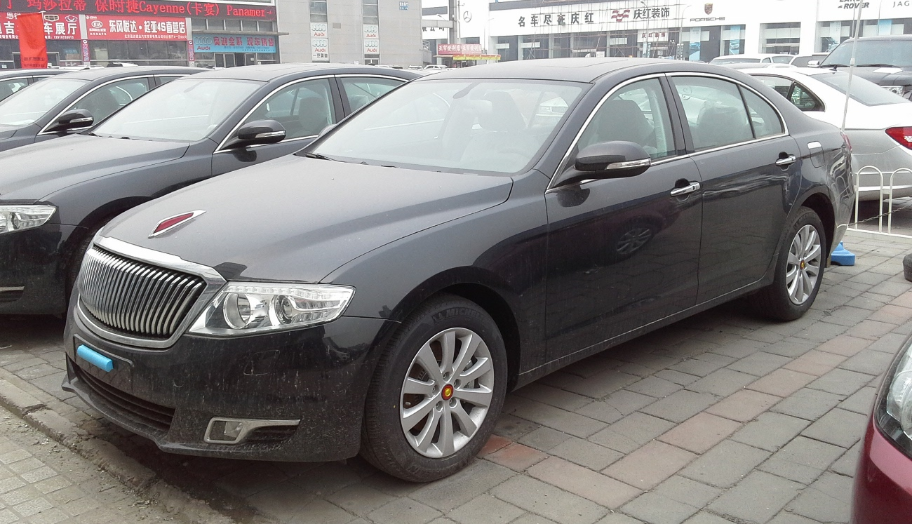 Hongqi H7 photographed in Beijing, China.